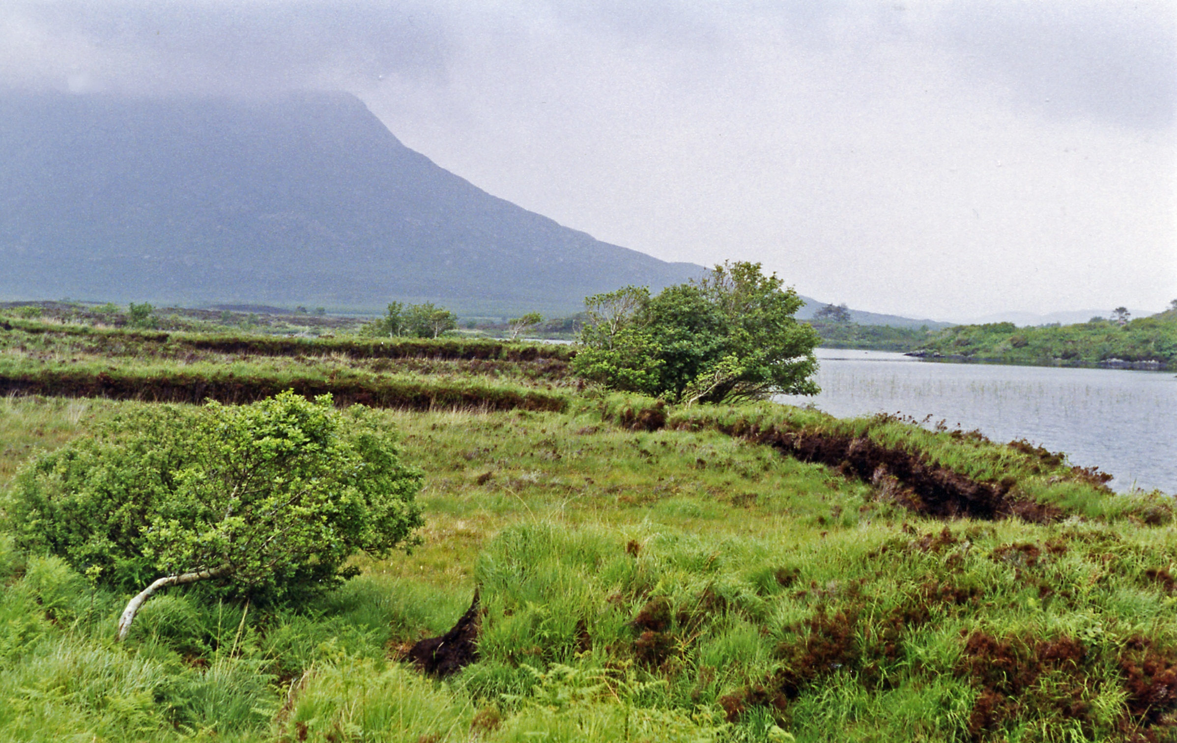 Lough Maamwee and Mt. Kirkogue, north of Maam Cross. In the depths of Connemara (Co. Galway) approaching the Joyce Country - typical damp weather.